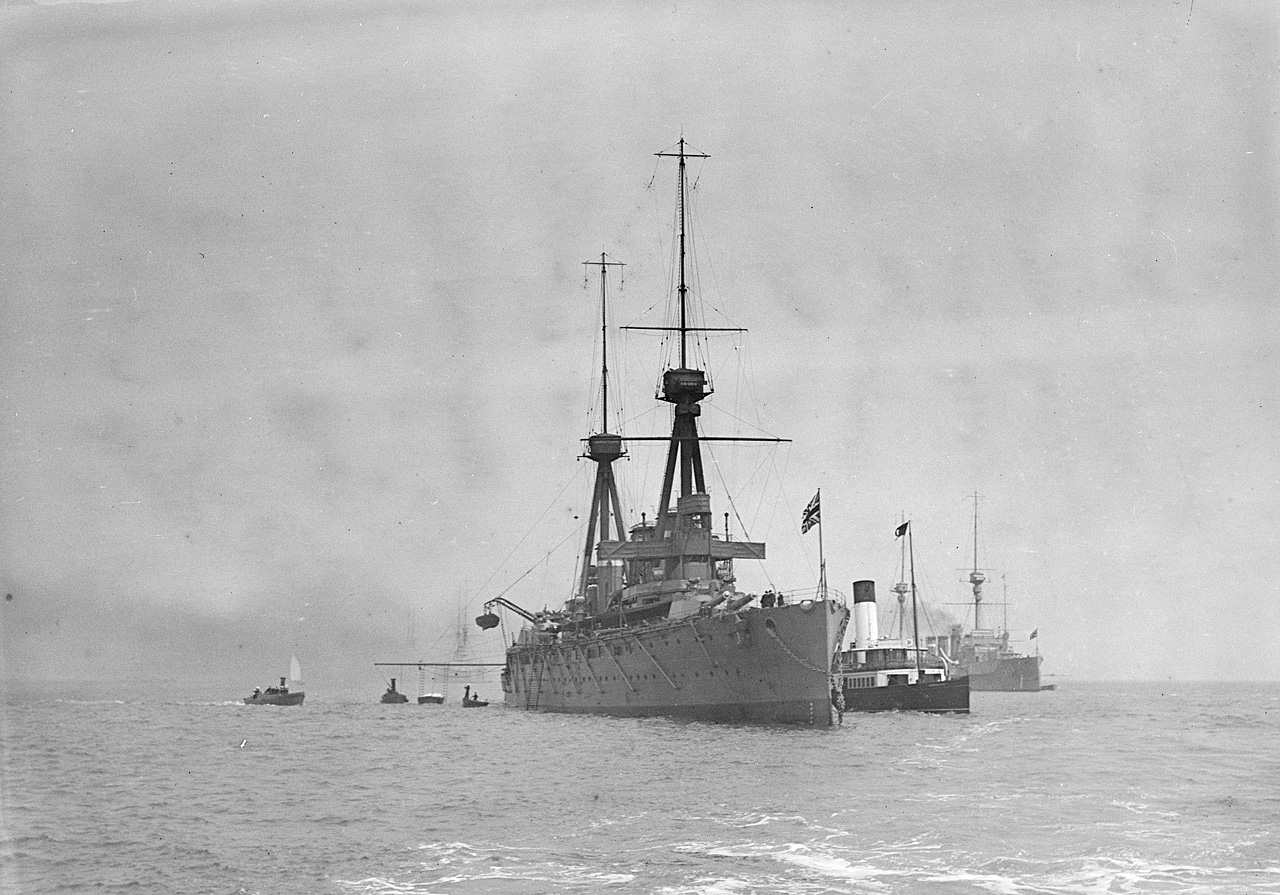 Photograph of British battlecruiser HMS Invincible anchored at Spithead. Materials: Gelatine dry plate.